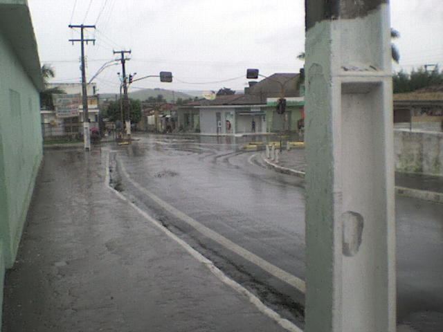 City of Murici, Brazil